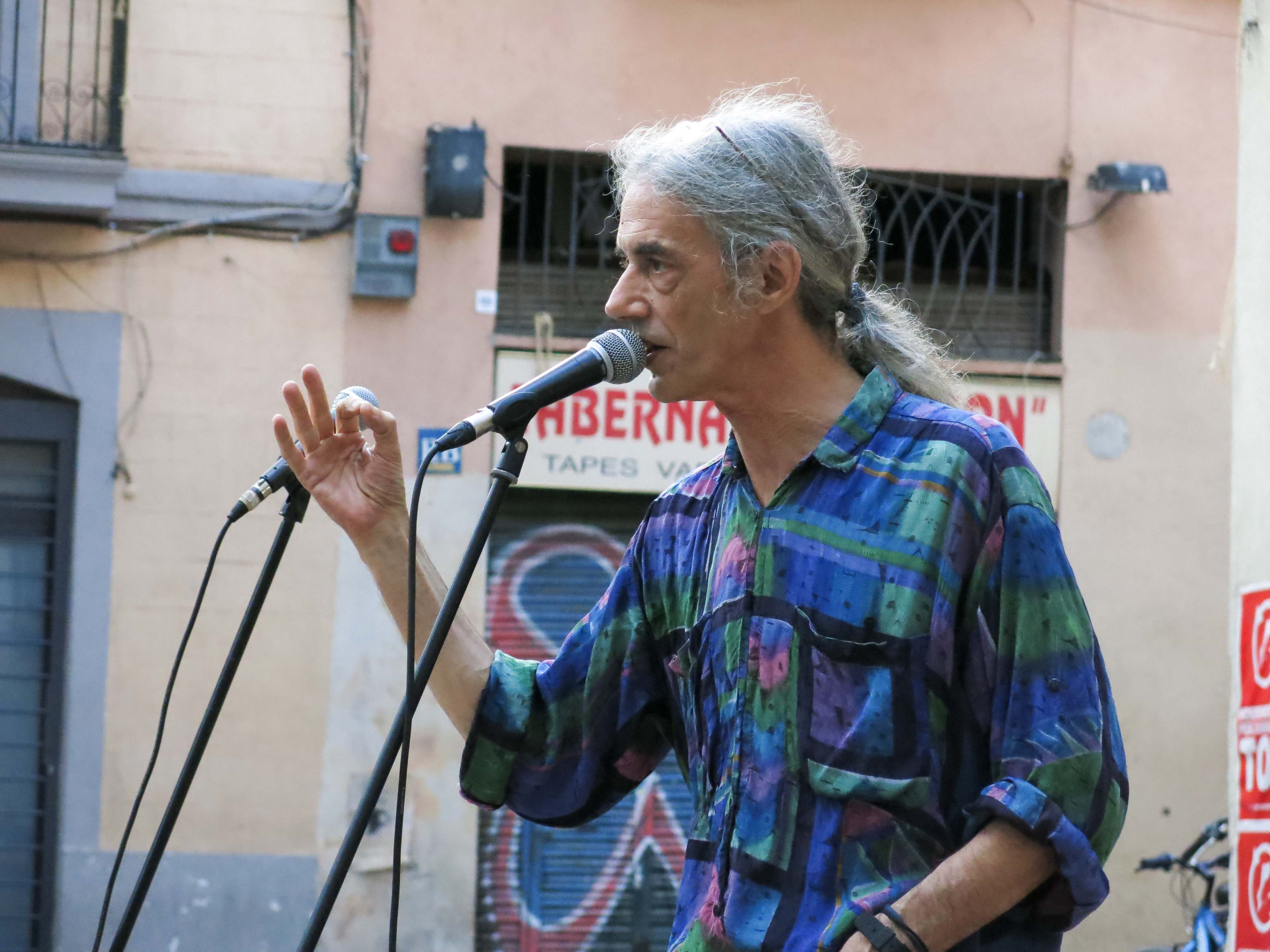 Enric Cassasses i Figueres